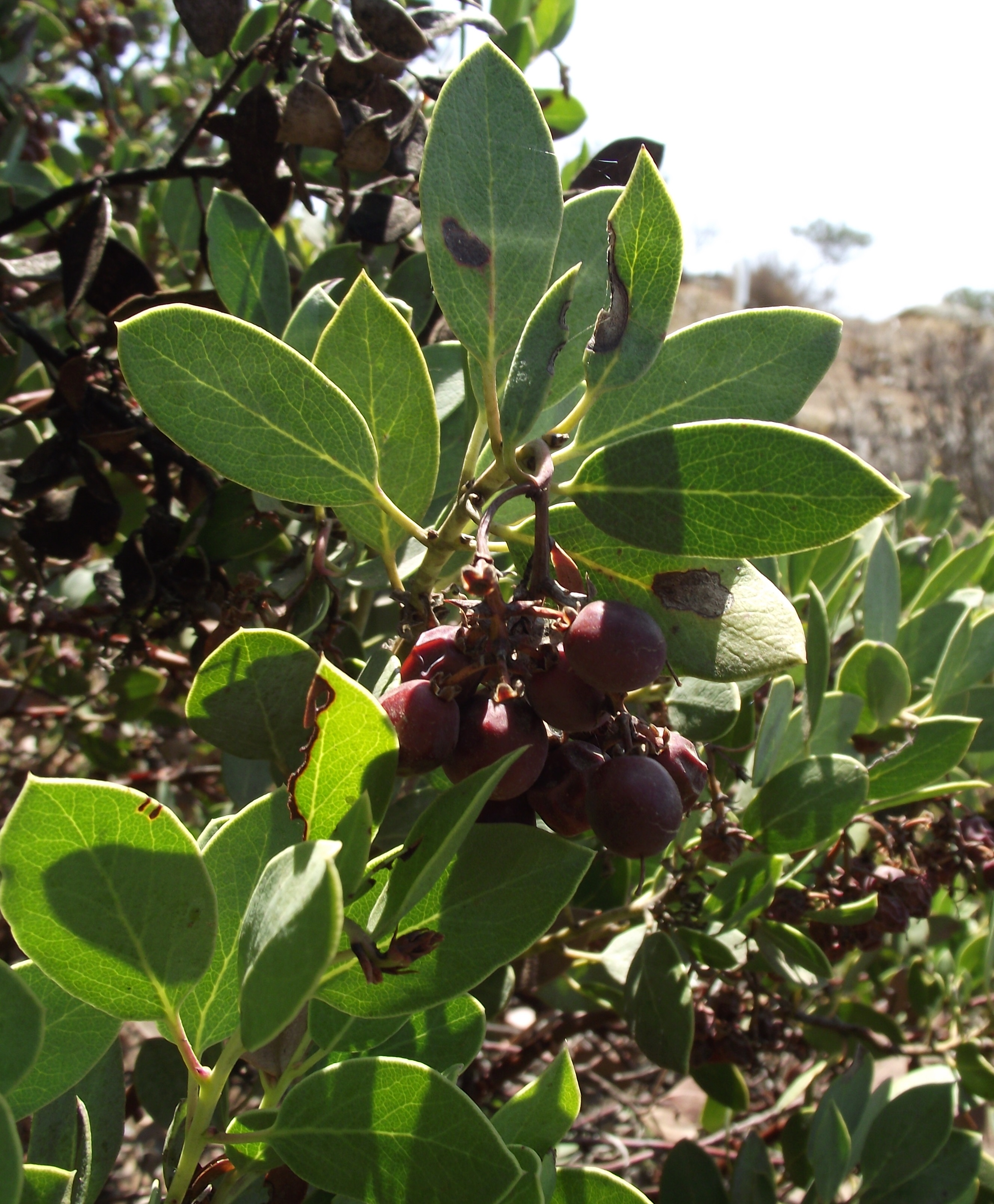 Arctostaphylos rainbowensis — at the San Diego Zoo Safari Park, Escondido, CA, USA